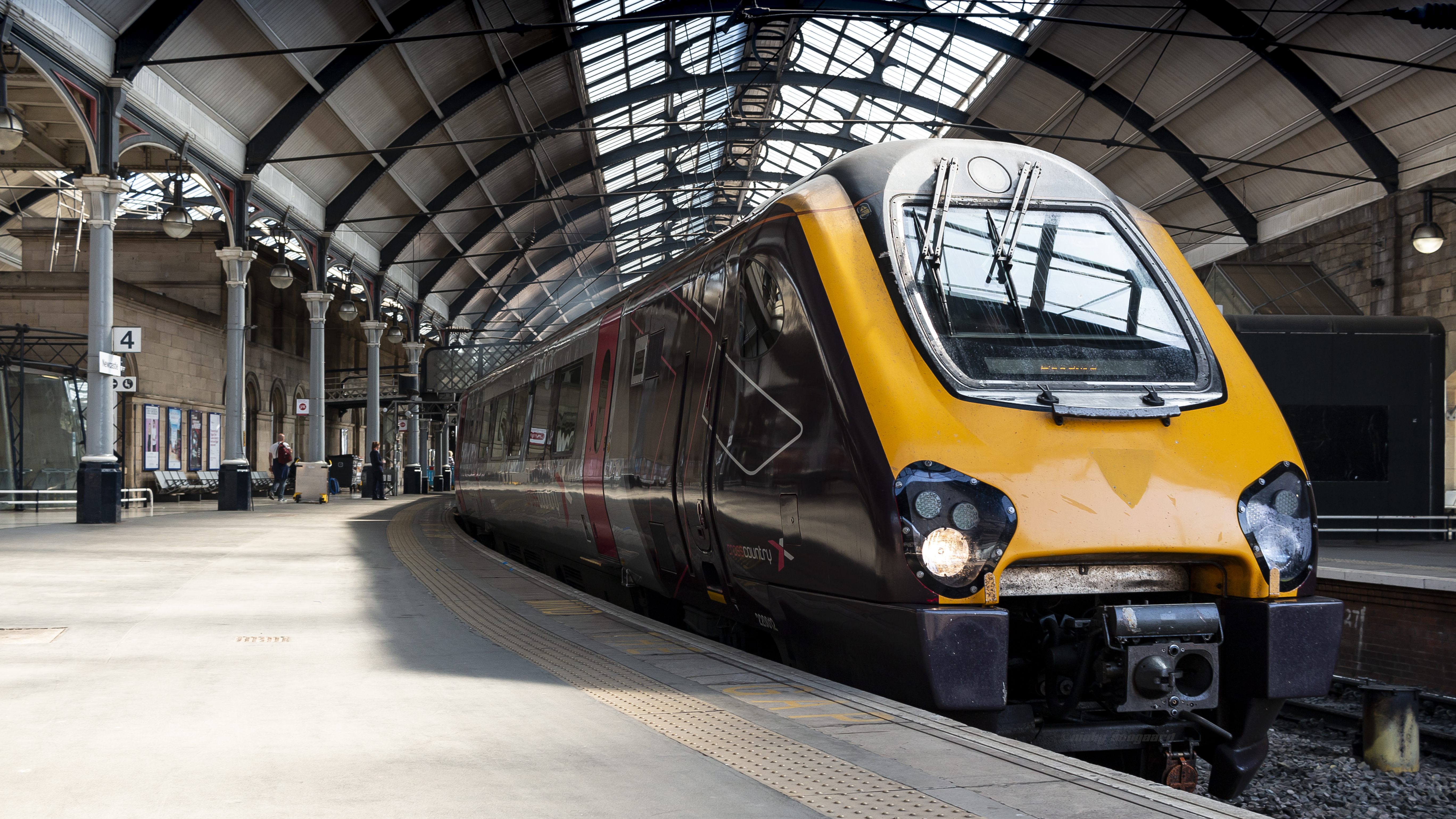 Newcastle Central Station, UK